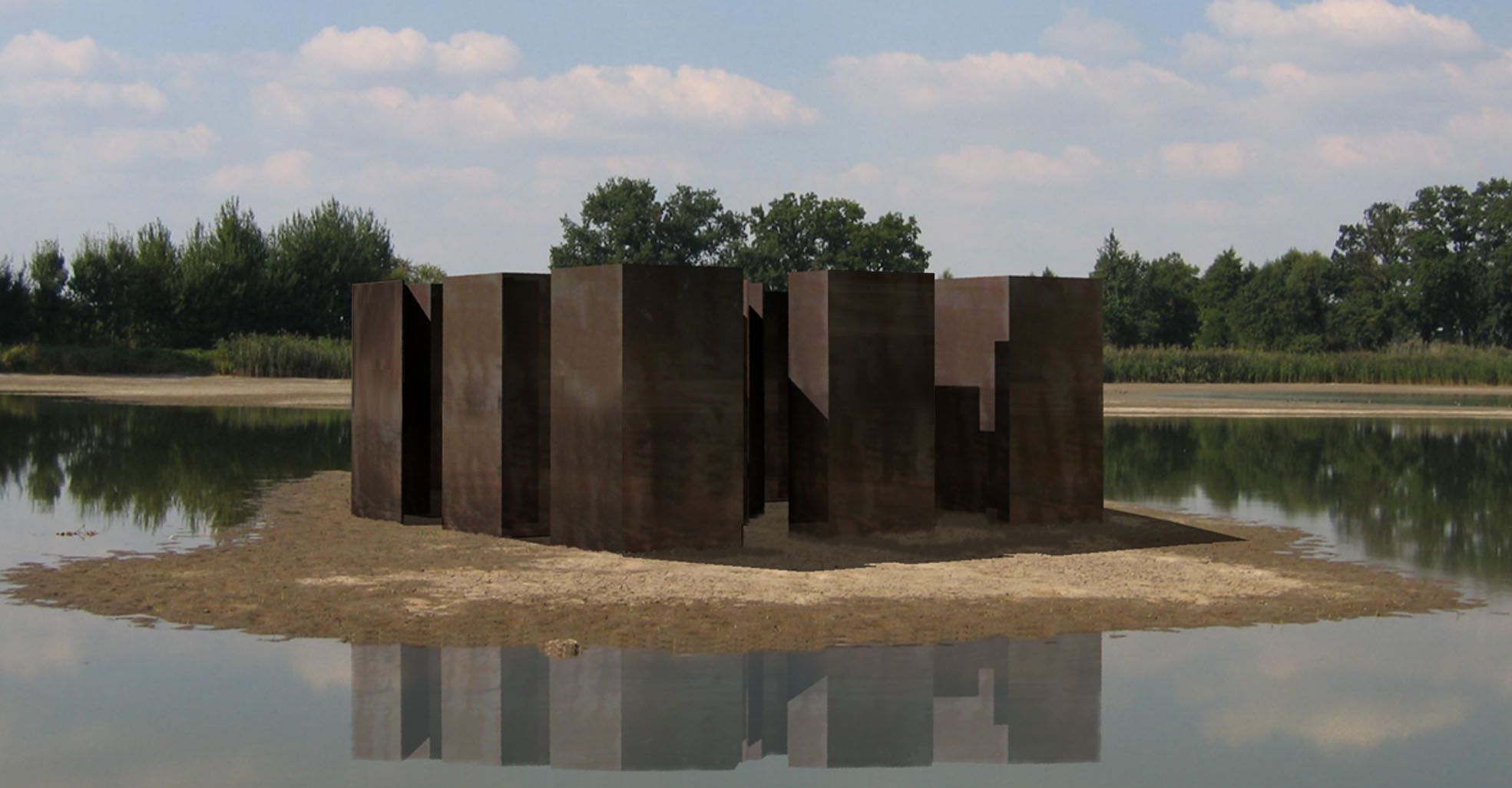 Land art sculpture in Poland